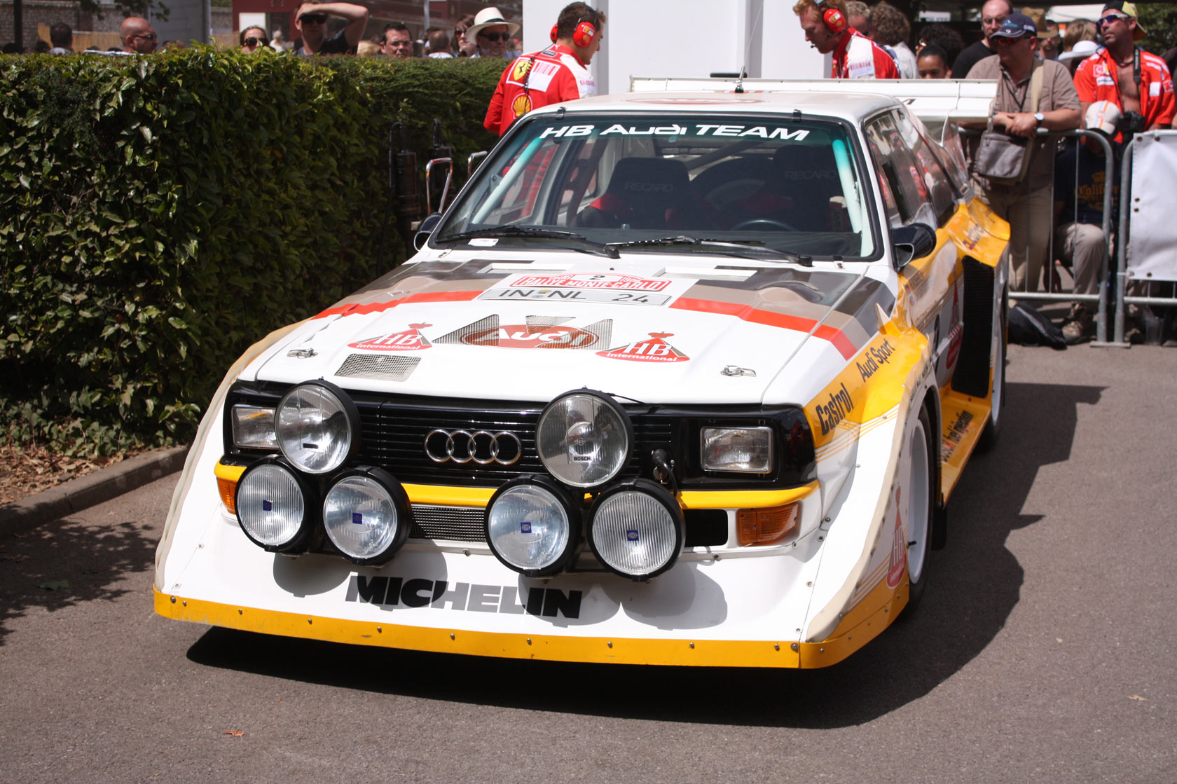 The Audi Sport Quattro S1 E1.